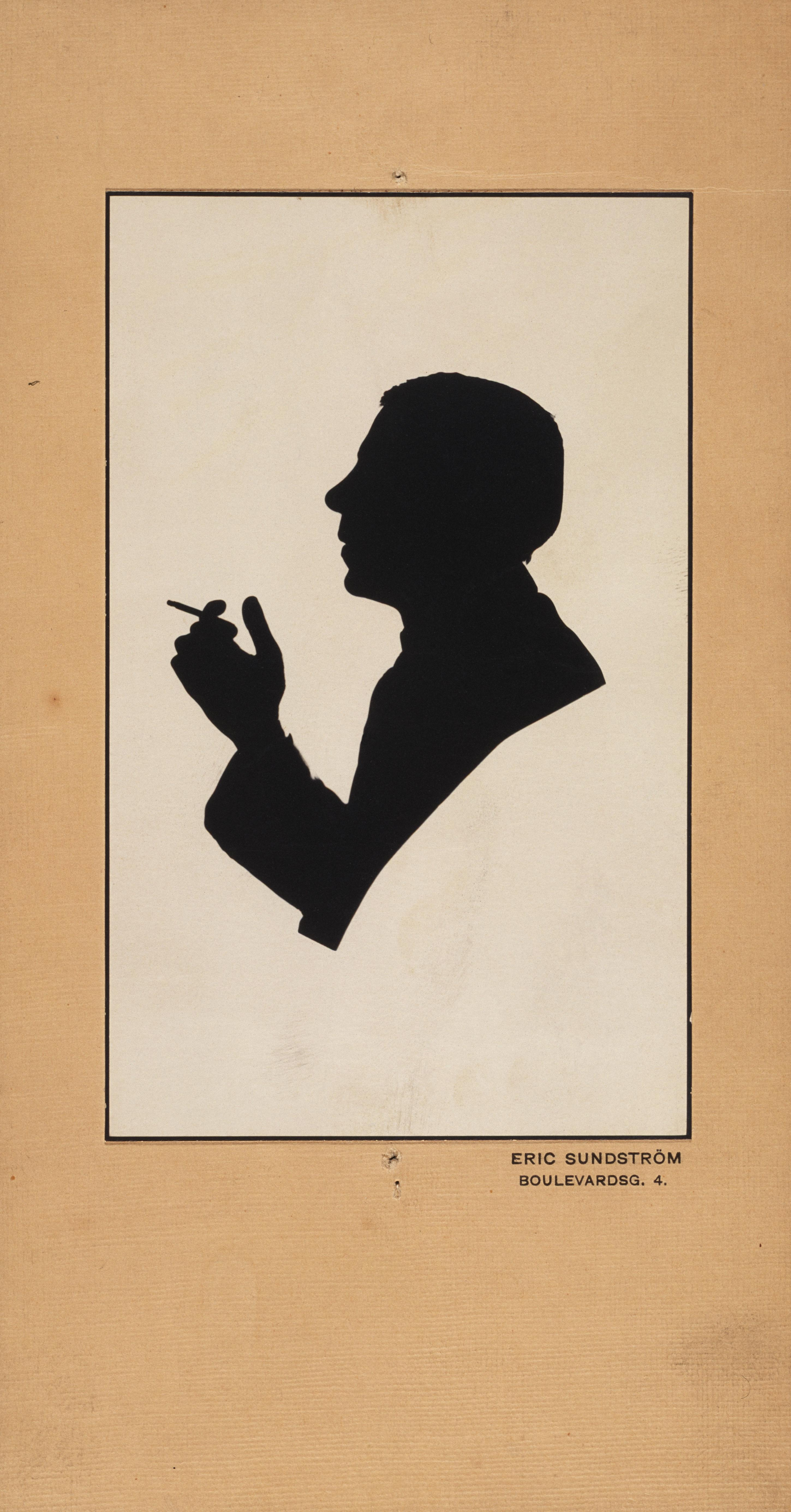 Atelier Eric Sundström: Bror Niska, Helsinki, 1910’s-1920’s. Silver gelatin print. / Bror Niska, Helsinki, 1910-1920-luku. Hopeagelatiinivedos. The Finnish Museum of Photography / Suomen valokuvataiteen museo